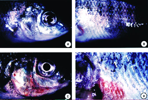 Acute pfiesteriosis in tilapia (Oreochromis spp.) exposed to Pfiesteria shumwayae under laboratory conditions. (A) Normal appearance of control fish, head region. (B) Normal appearance of flank. (C) Petecchial hemorrhage over operculum after acute lethal exposure. (D) Focal erythema caudal to pectoral fin (arrowhead), loss of mucus coat, epidermis, and scales along flank (arrows).